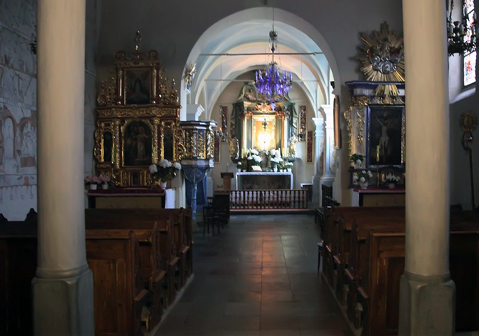 Interior view of the Church in the Krościenko over Dunajec